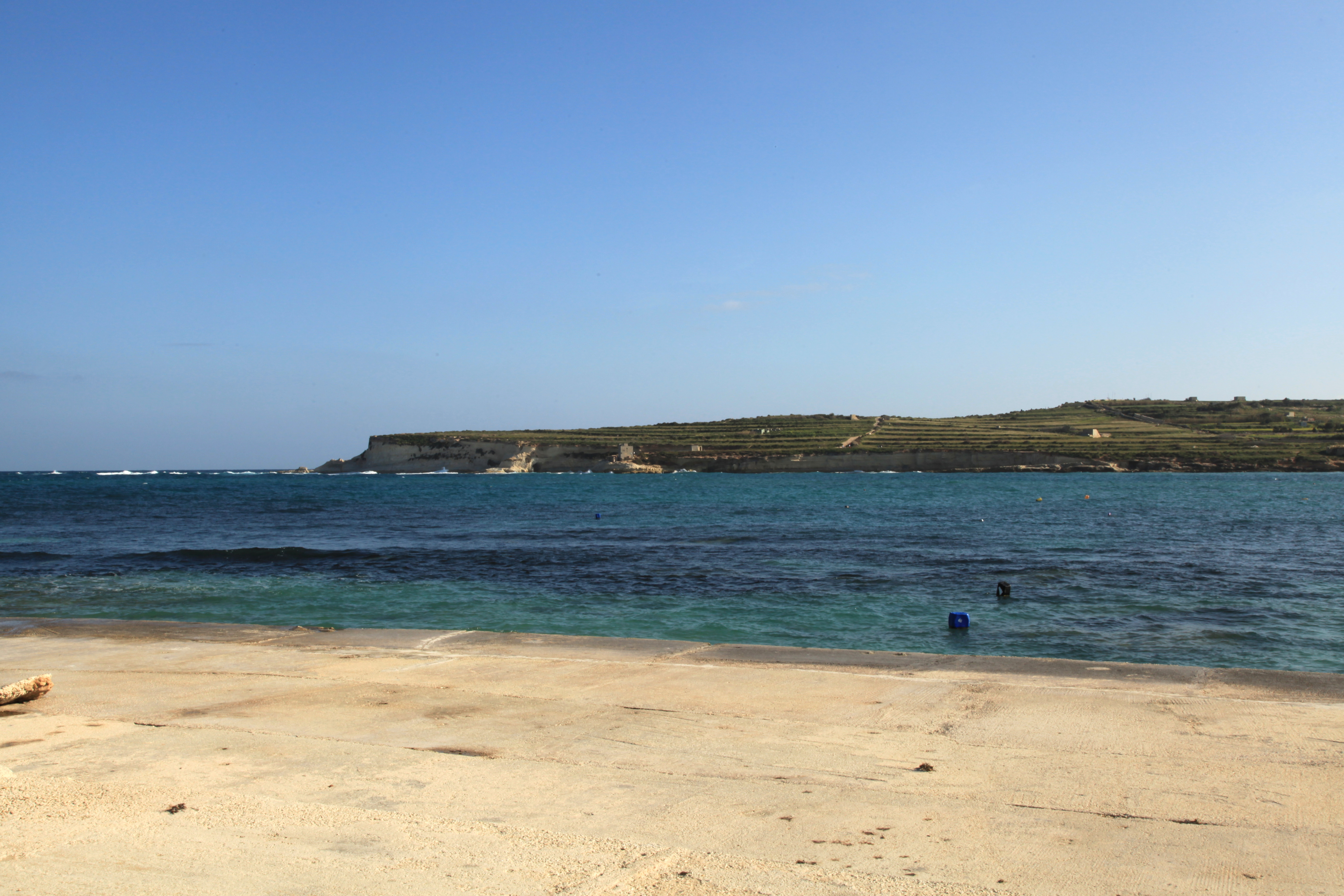 View from Ġnien il-Bajja ta' San Tumas at Triq il-Qalet to the St. Thomas Bay in Marsaskala, Malta